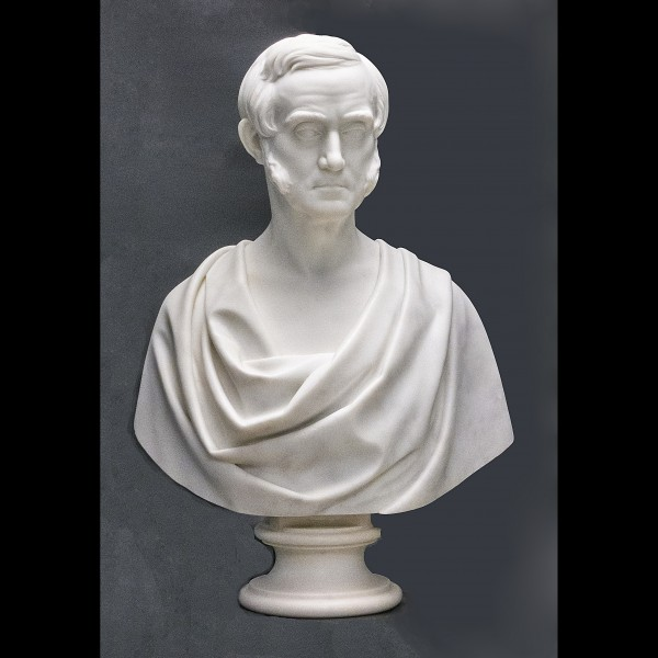 Howard Newman's restoration of marble bust of Alexis Caswell from the Brown University Hay Library.